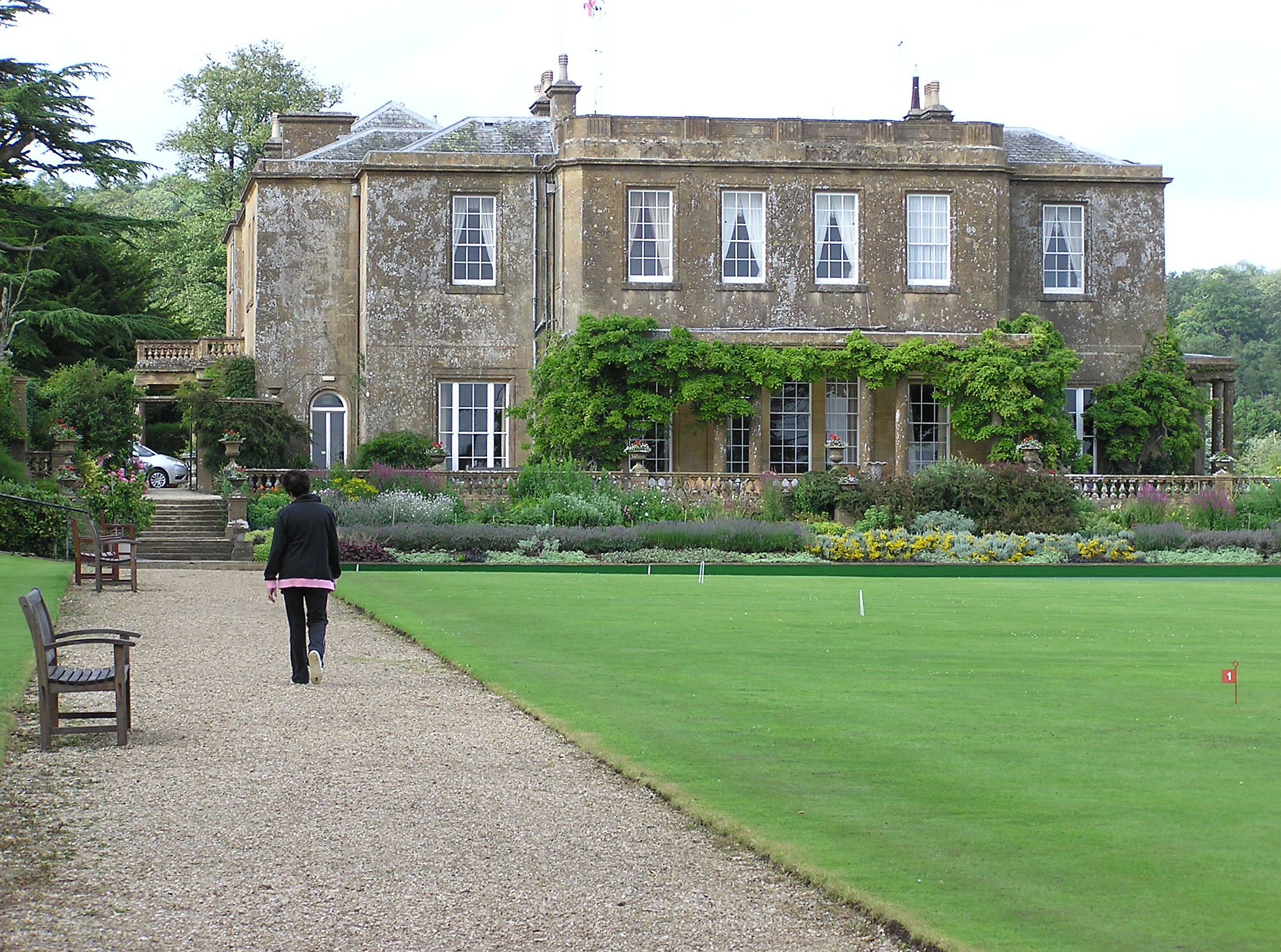 The Manor House at Cricket Saint Thomas, Somerset, England.